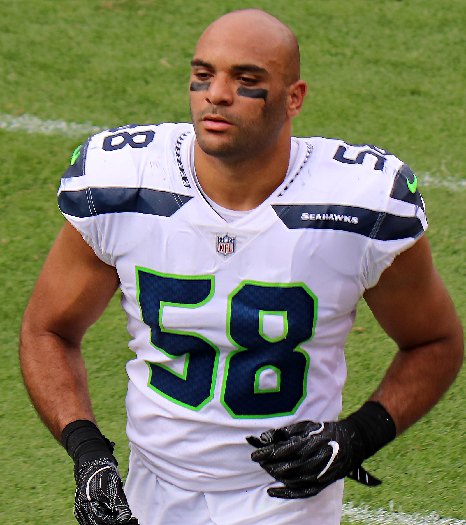 Austin Calitro, a National Football League player.